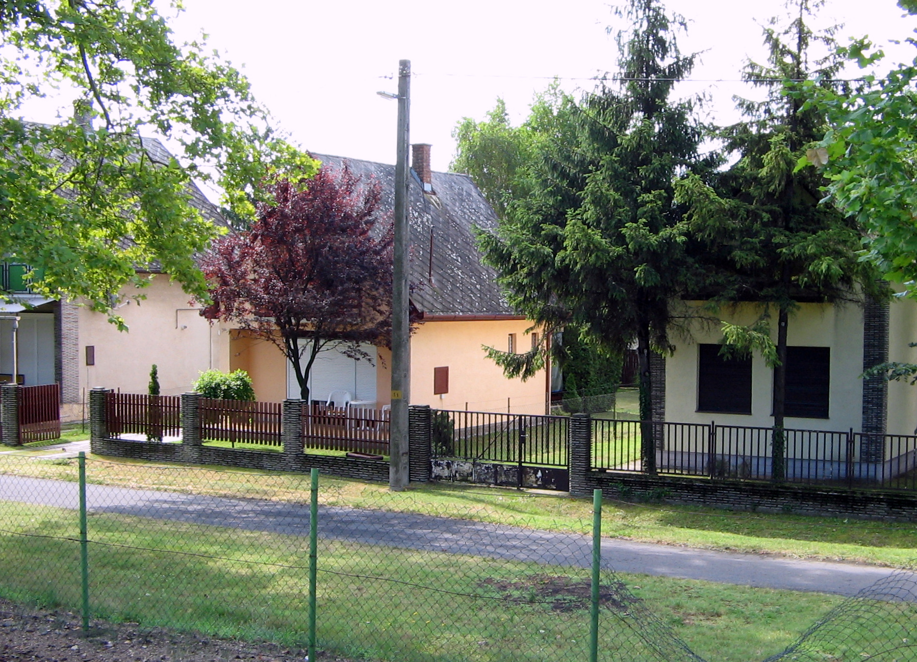 Balatonbereny. Pfoto by Victor Belousov.